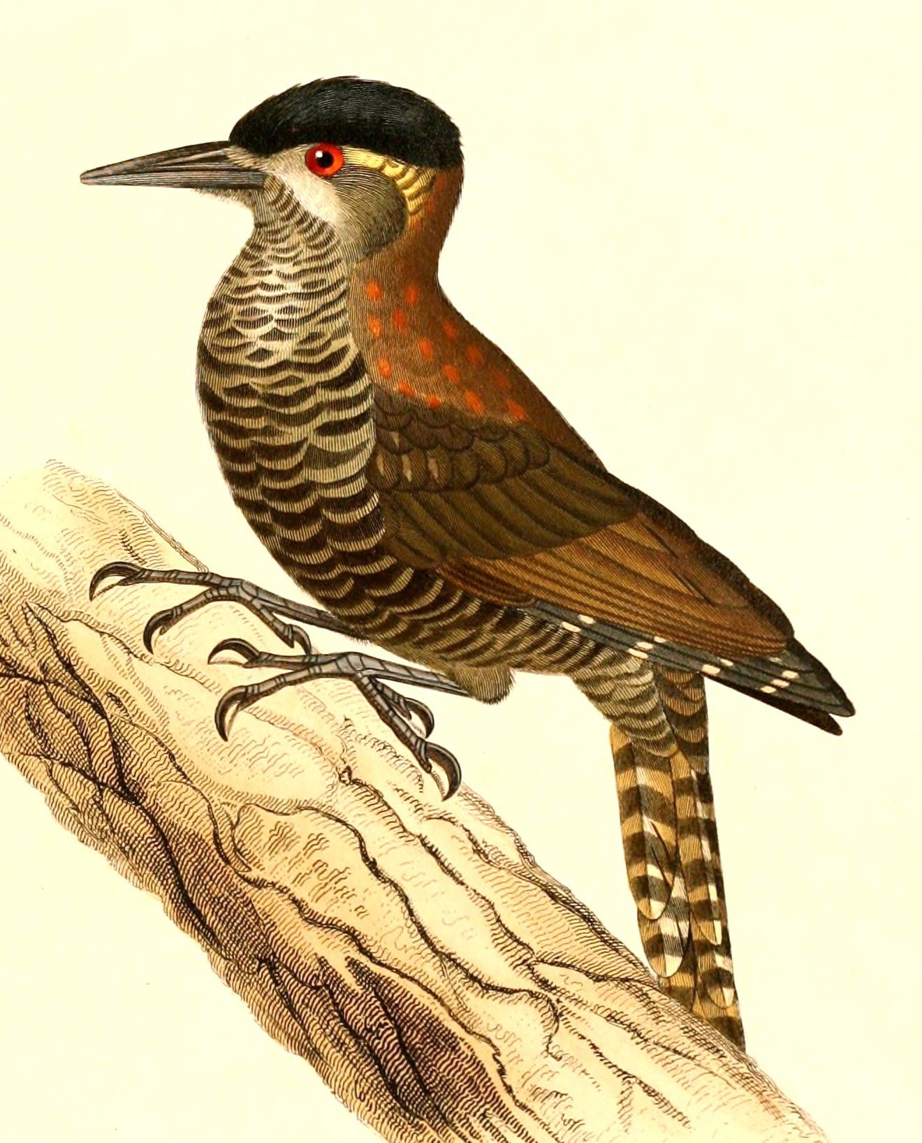 « Picus nigriceps » = Veniliornis nigriceps (Bar-bellied Woodpecker)